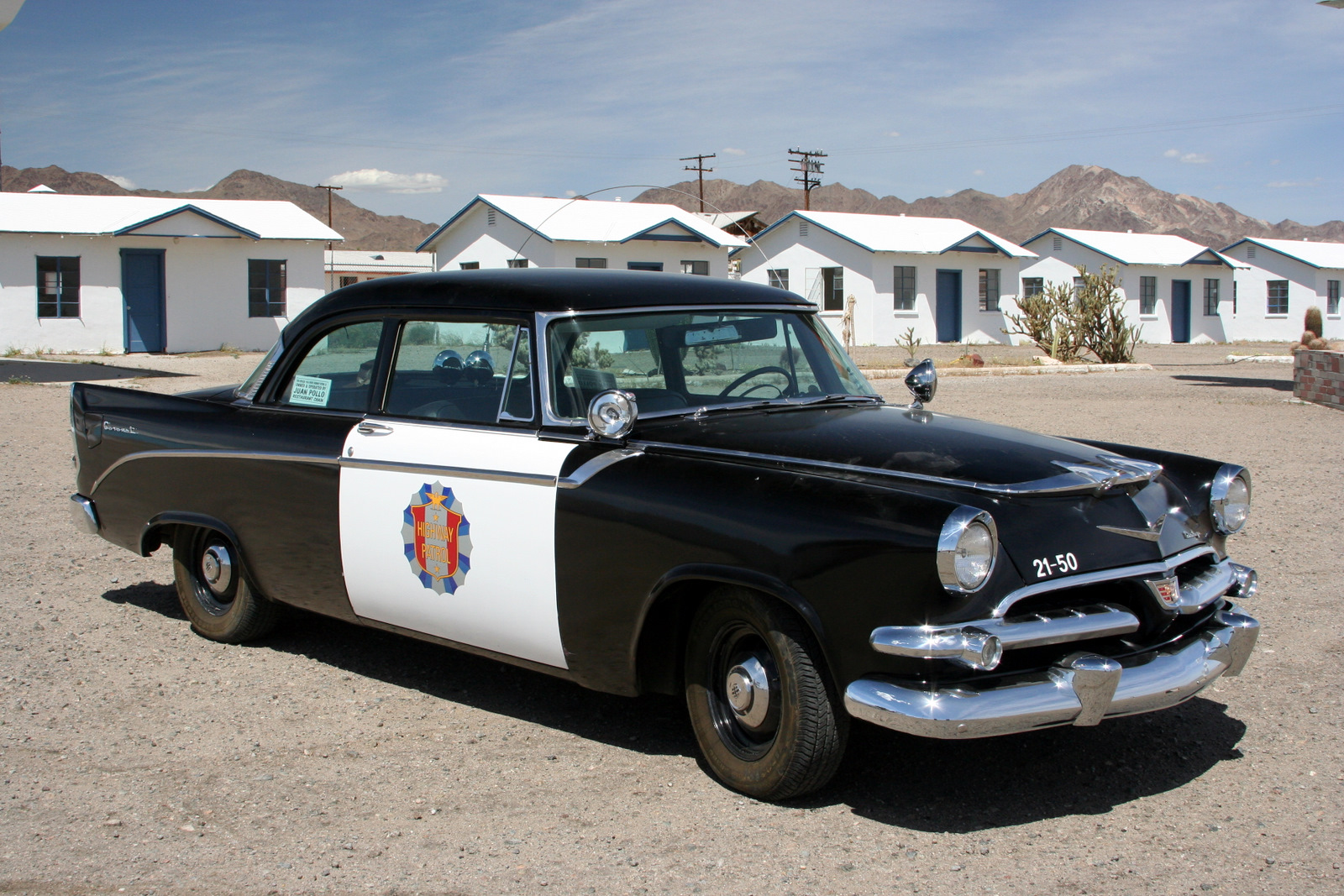 1955 Dodge Coronet Highway Patrol Car, parked at Roy's Motel and Cafe in Amboy, California, USA.